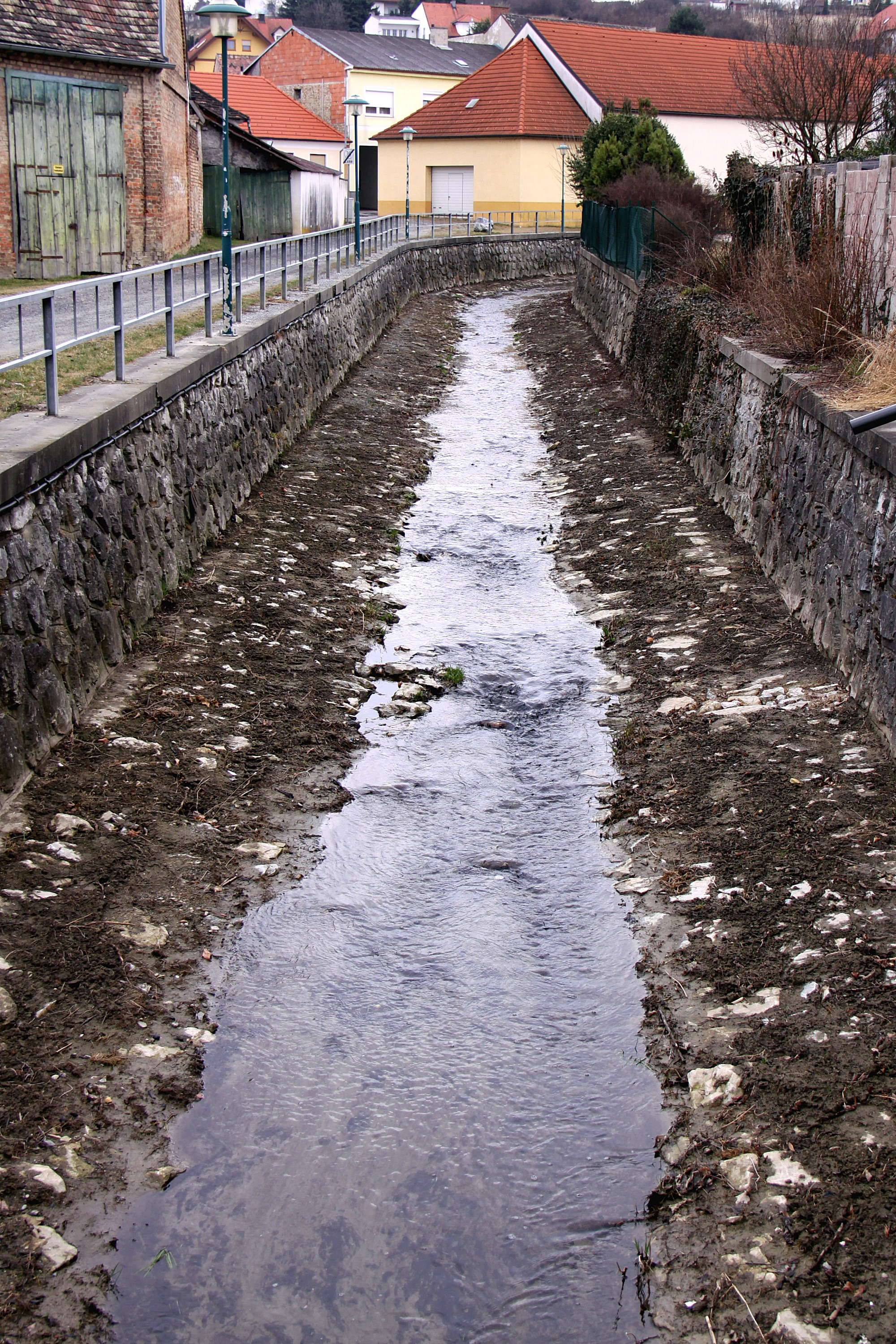 Wulka in Mattersburg. Object location47° 44′ 07.9″ N, 16° 23′ 42.98″ E